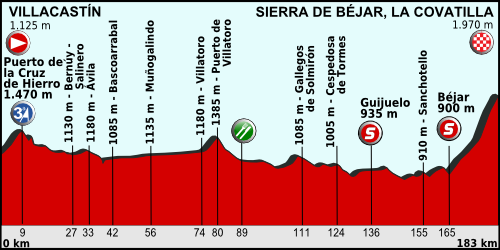 Profile of the 9th stage: Vuelta a España 2011